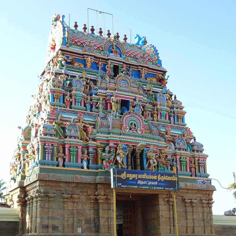 trichy thottiyam marutha kaliamman temple koopuram